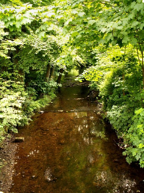 The River Menalhyl. From the bridge by the Toll House in St. Columb the River Menalhyl flows on towards Mawgan Porth and the Atlantic Ocean.